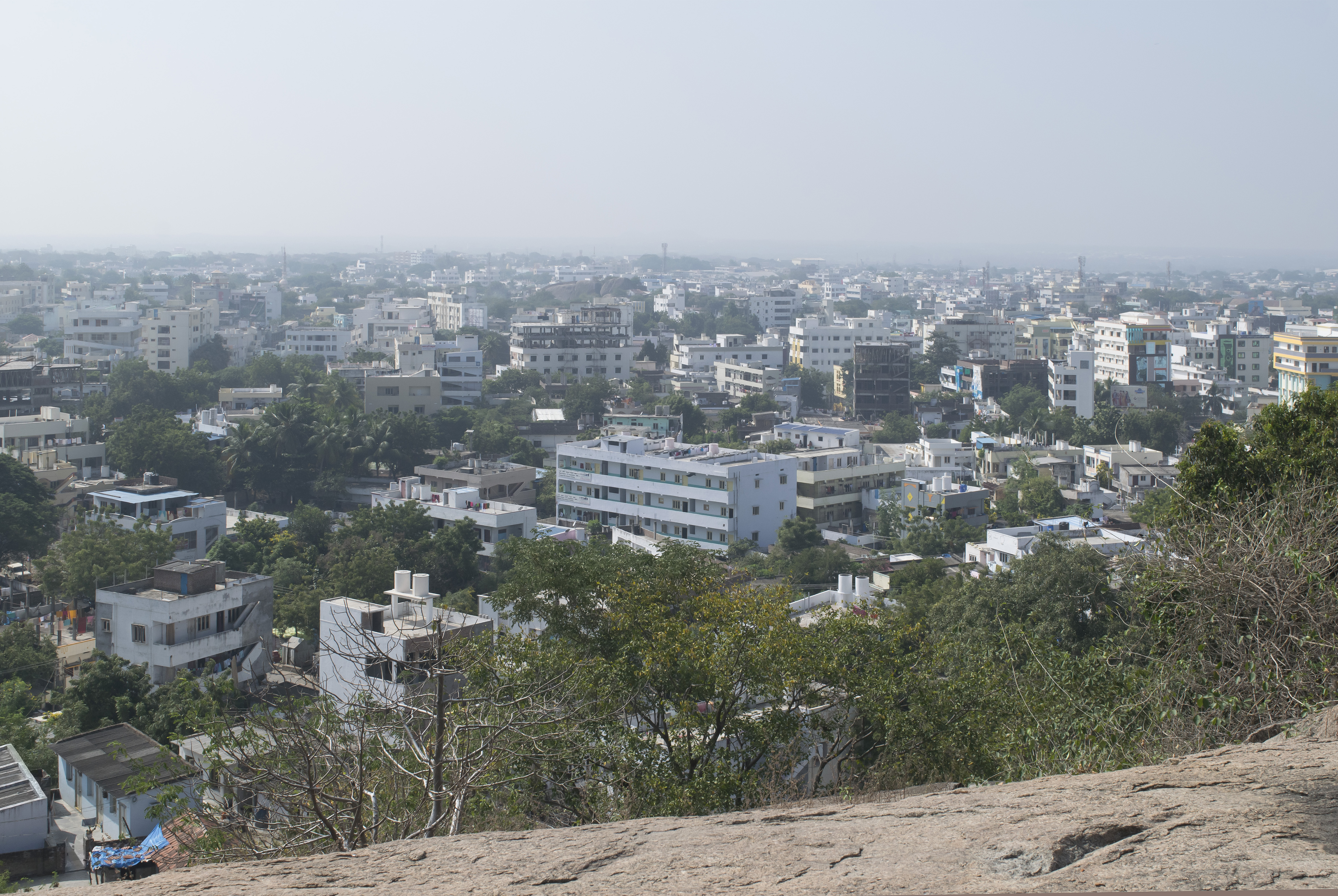 Khammam Town as seen from Narasimha Swamy hill in Khammam